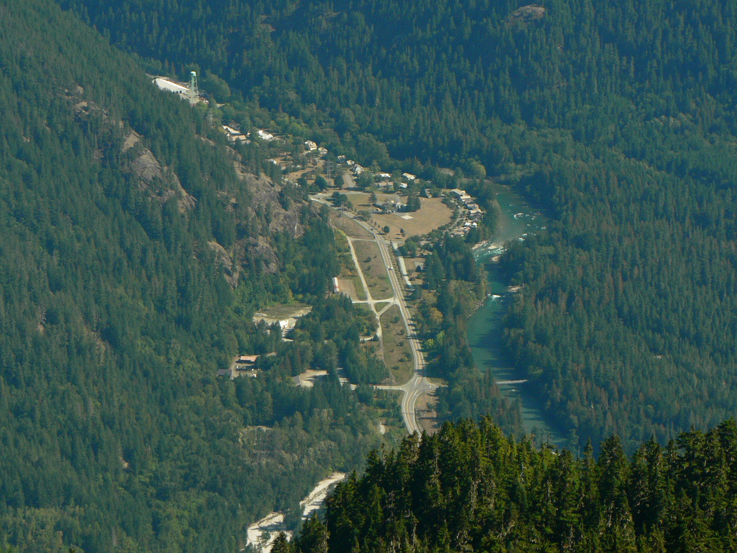 Newhalem, Washington, Skagit River Valley, Washington State Route 20